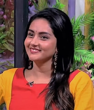 Actress Mahima Nambiar on Natchathira Jannal with VJ Anjana